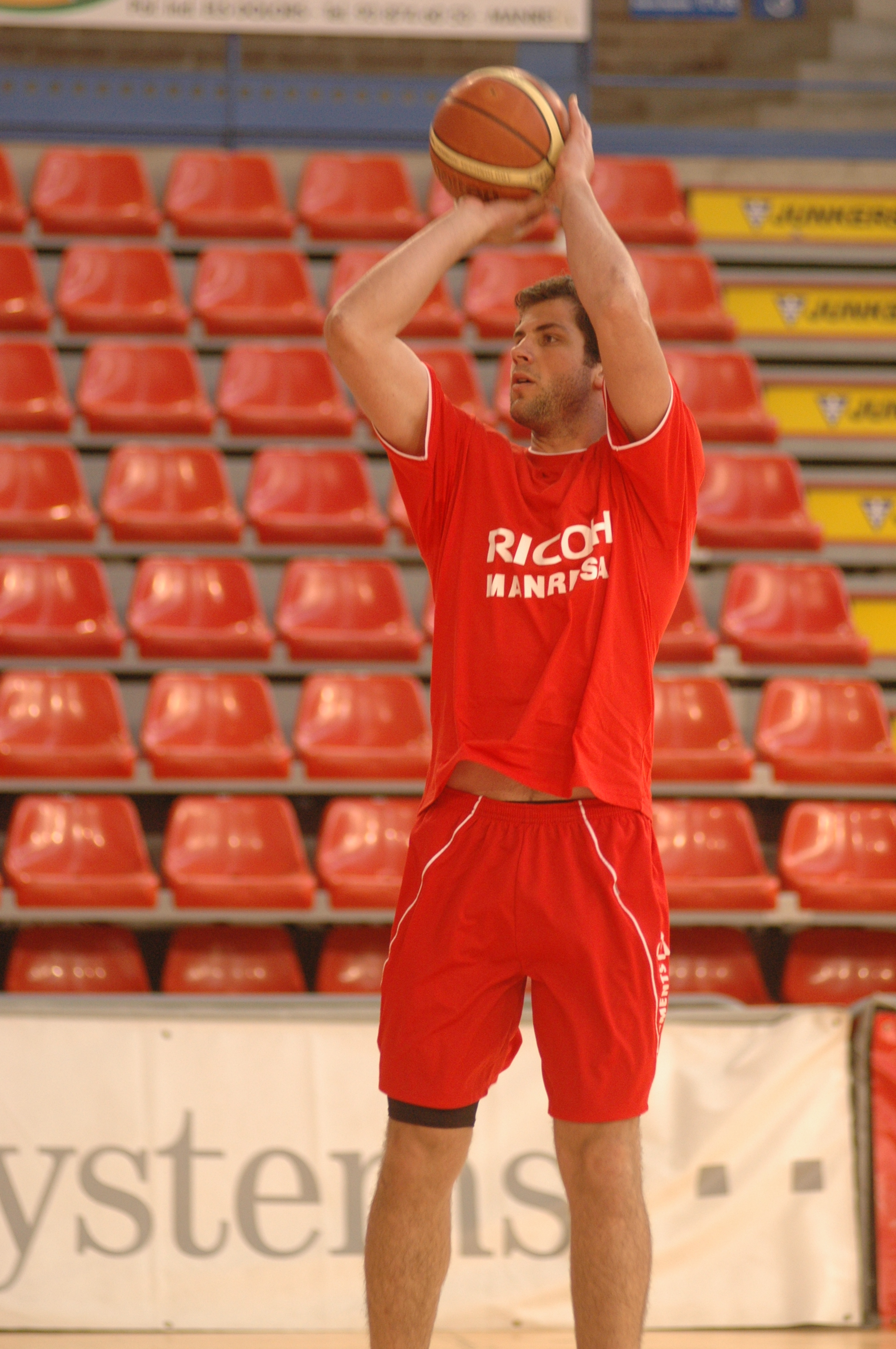 a photo of Nick VanderLaan playing for Bàsquet Manresa